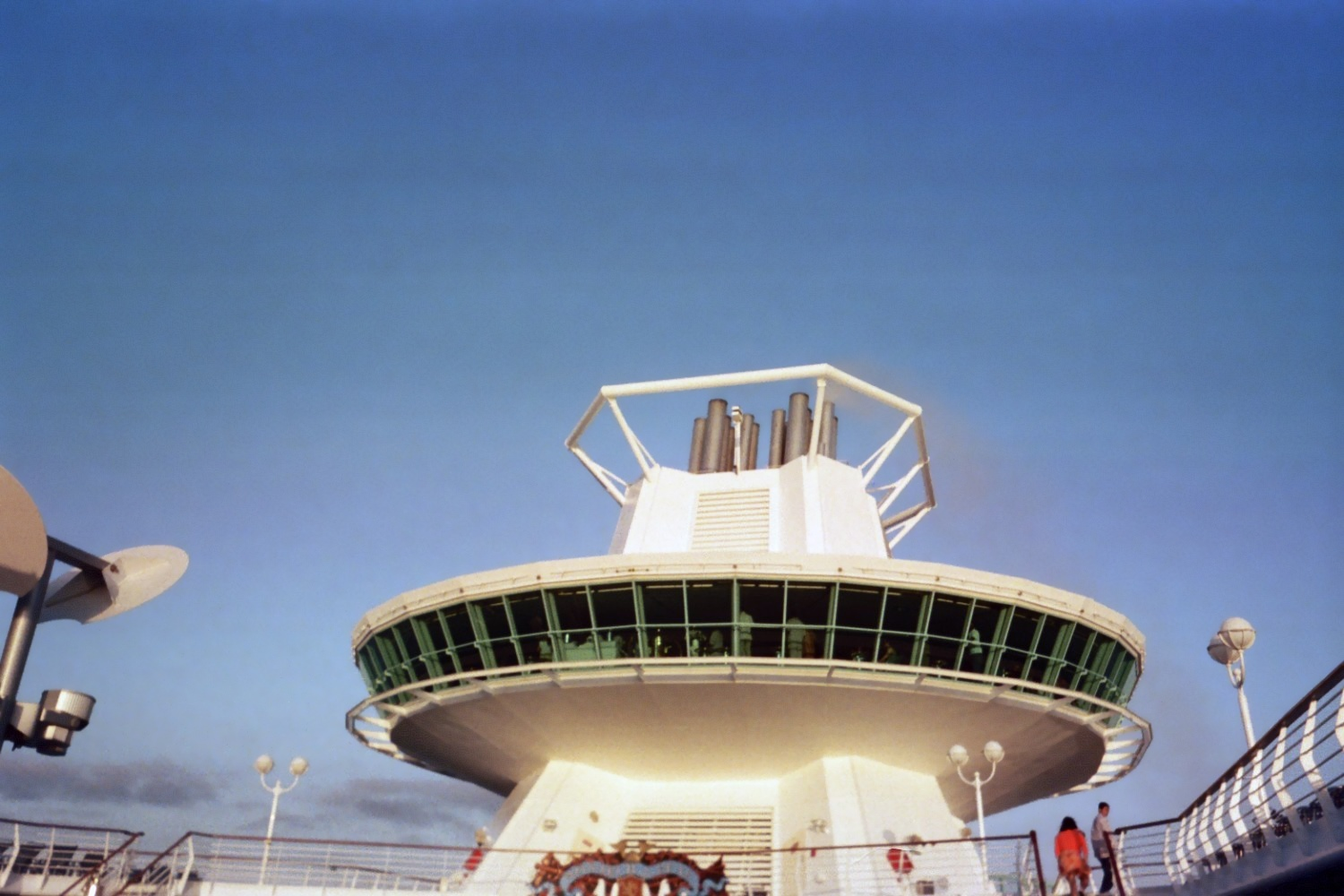 had it myself